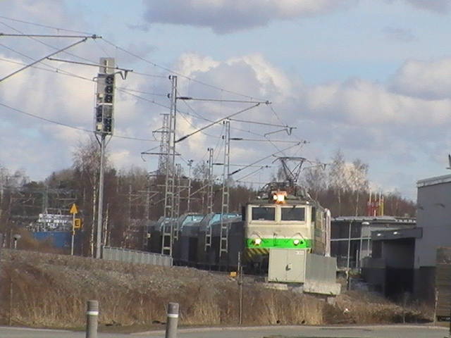 Finnish freight train at Rauma, pulled by VR Class Sr1. Train was waiting the changing of light-signal's colors.